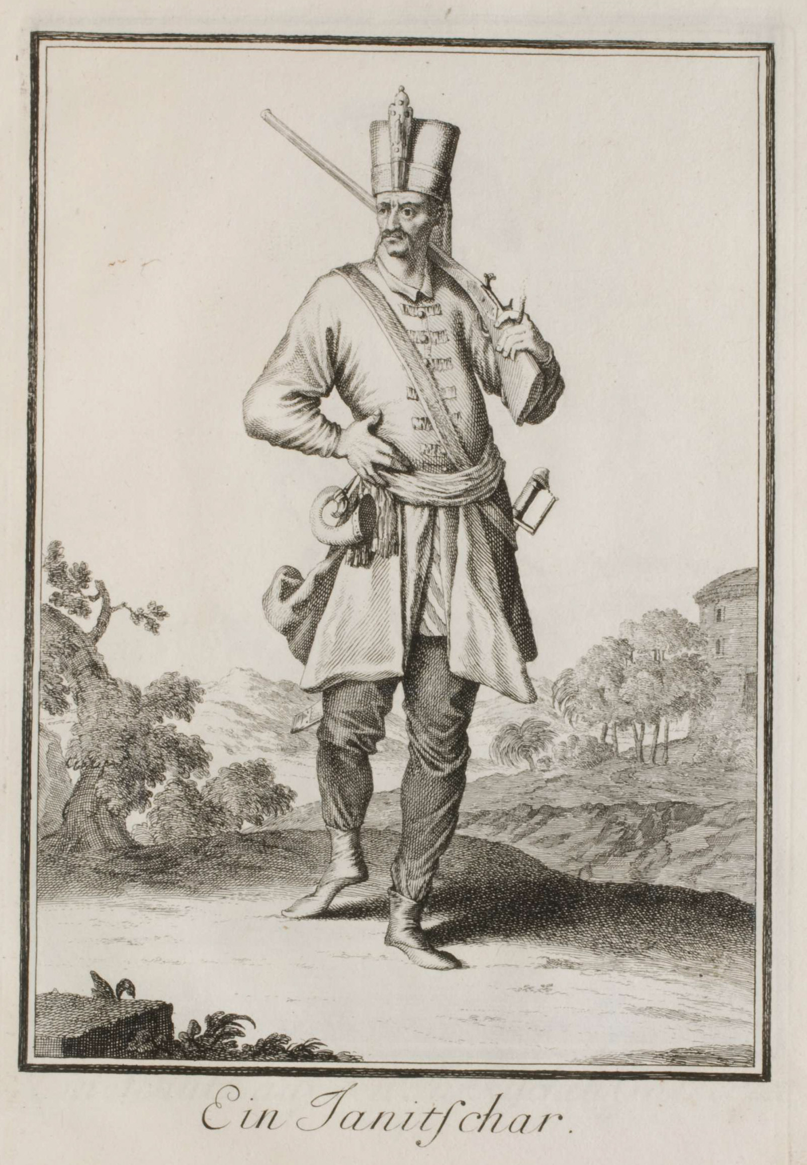 Neu-eröffnete Welt-Galleria. ..., Nürnberg 1703. 85. Ein Janitschar.